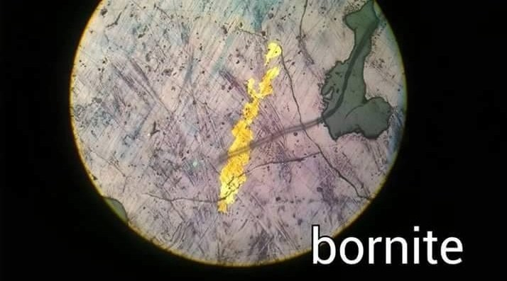 Bornite by petrographic microscope